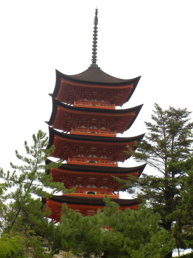 Miyajima_Five_story_pagoda. 宮島の五重塔, Miyajima.